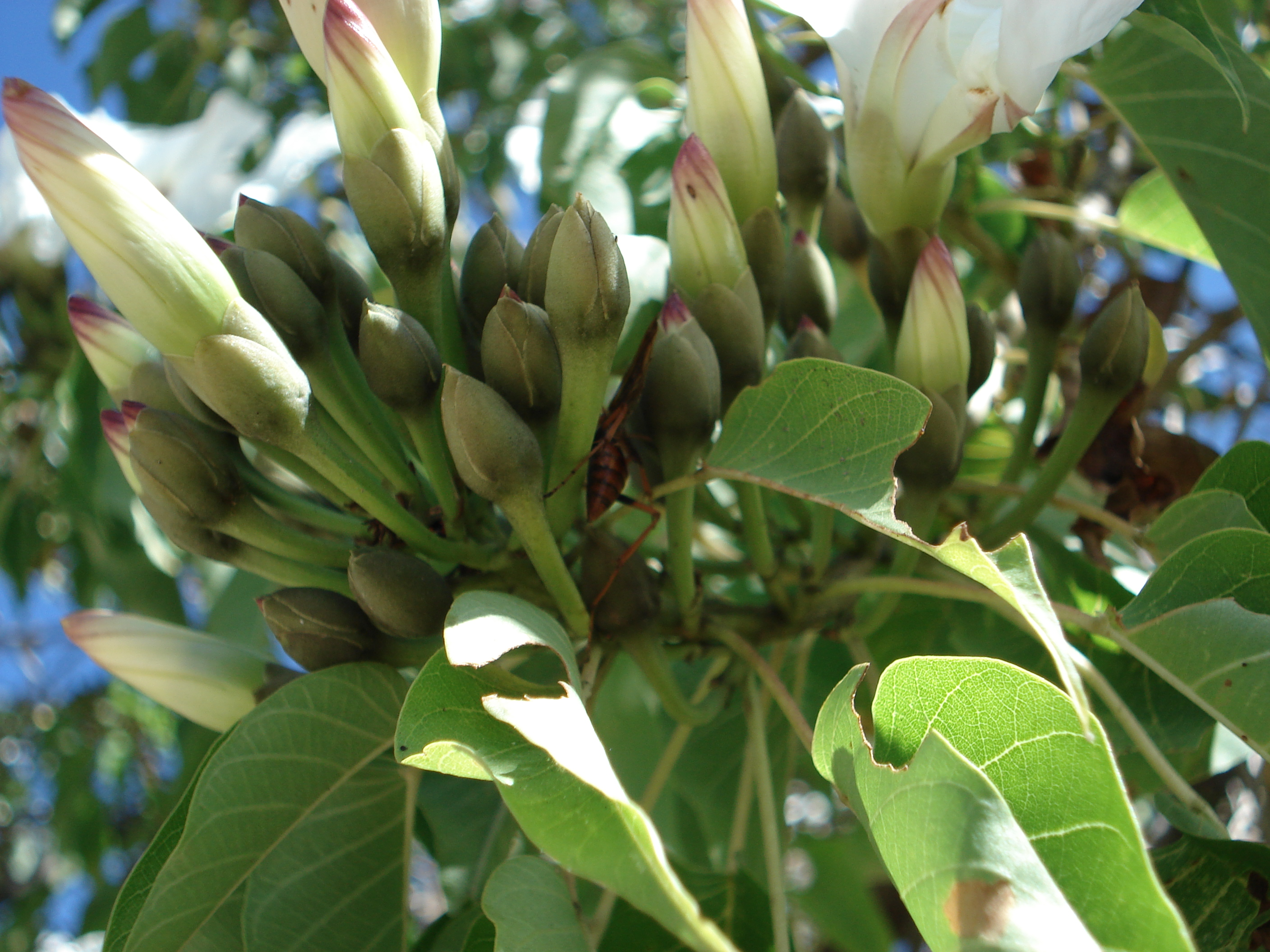 Detail of inflorescence of Ipomoea arborescens var. pachylutea on Mount Alban close to Oaxaca in MEXICO